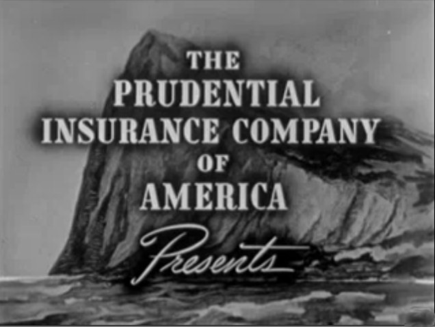 Title screen from the 1948 agent training film, "Another Cup of Coffee", showing the Prudential logo used at the time.